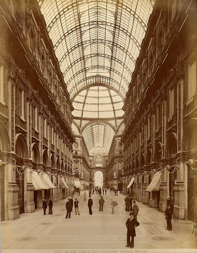 Giacomo Brogi (1822-1881) - "Milan. "Galleria Vittorio Emanuele II". Catalogue # 3837.